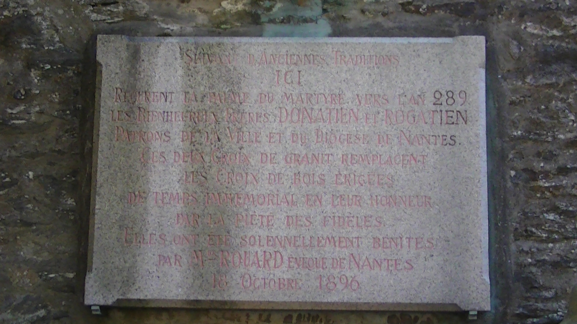 Plaque describing the memorial to Sts. Donatian and Rogatian, Rue Dufour, near the Basilica of Donatien et Rogatien, Nantes